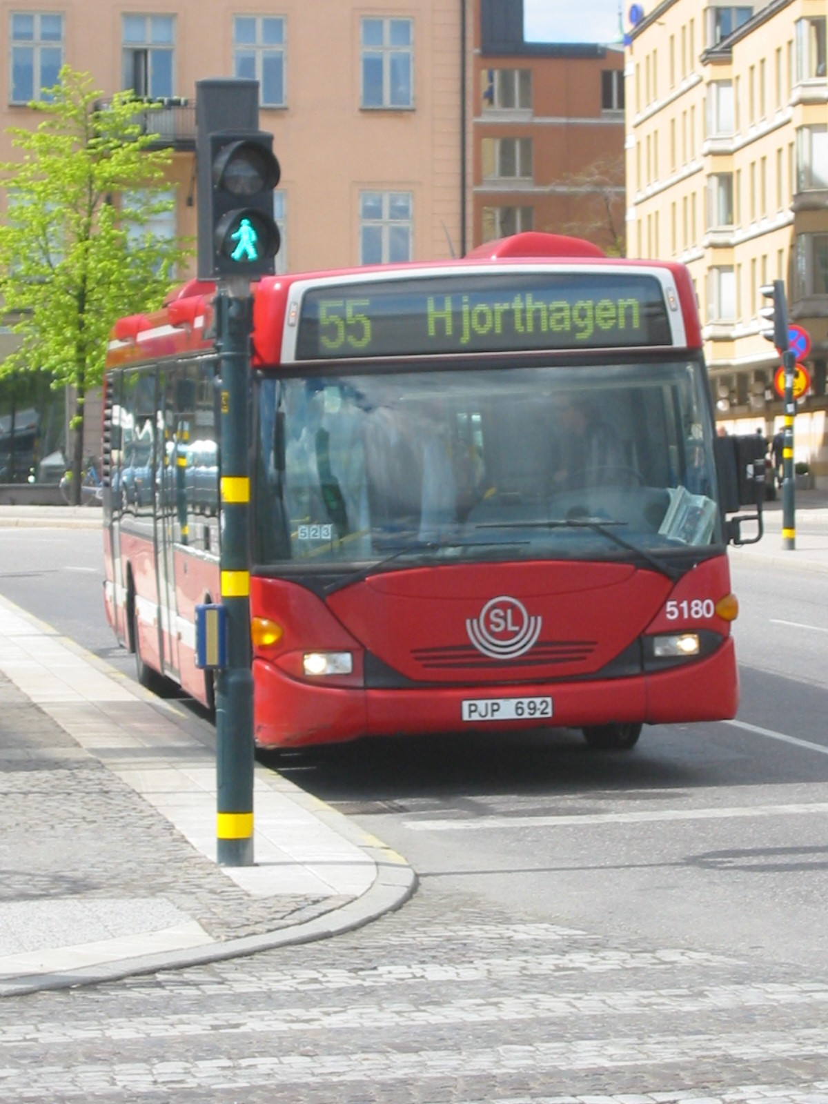 Scania CN94UB OmniCity in Stockholm, Sweden. Built in 2000. Seen here painted in the livery of Storstockholms Lokaltrafik (SL) and operating on route 55 to Hjorthagen.